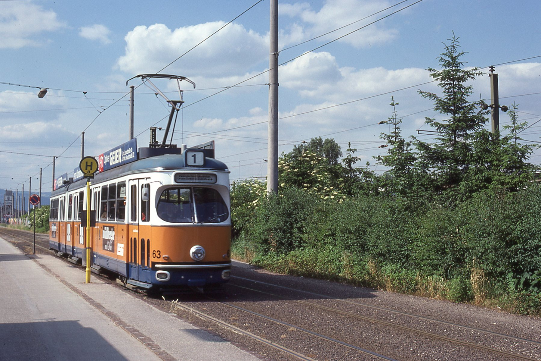 Tram Linz, Car 63 on line 1.